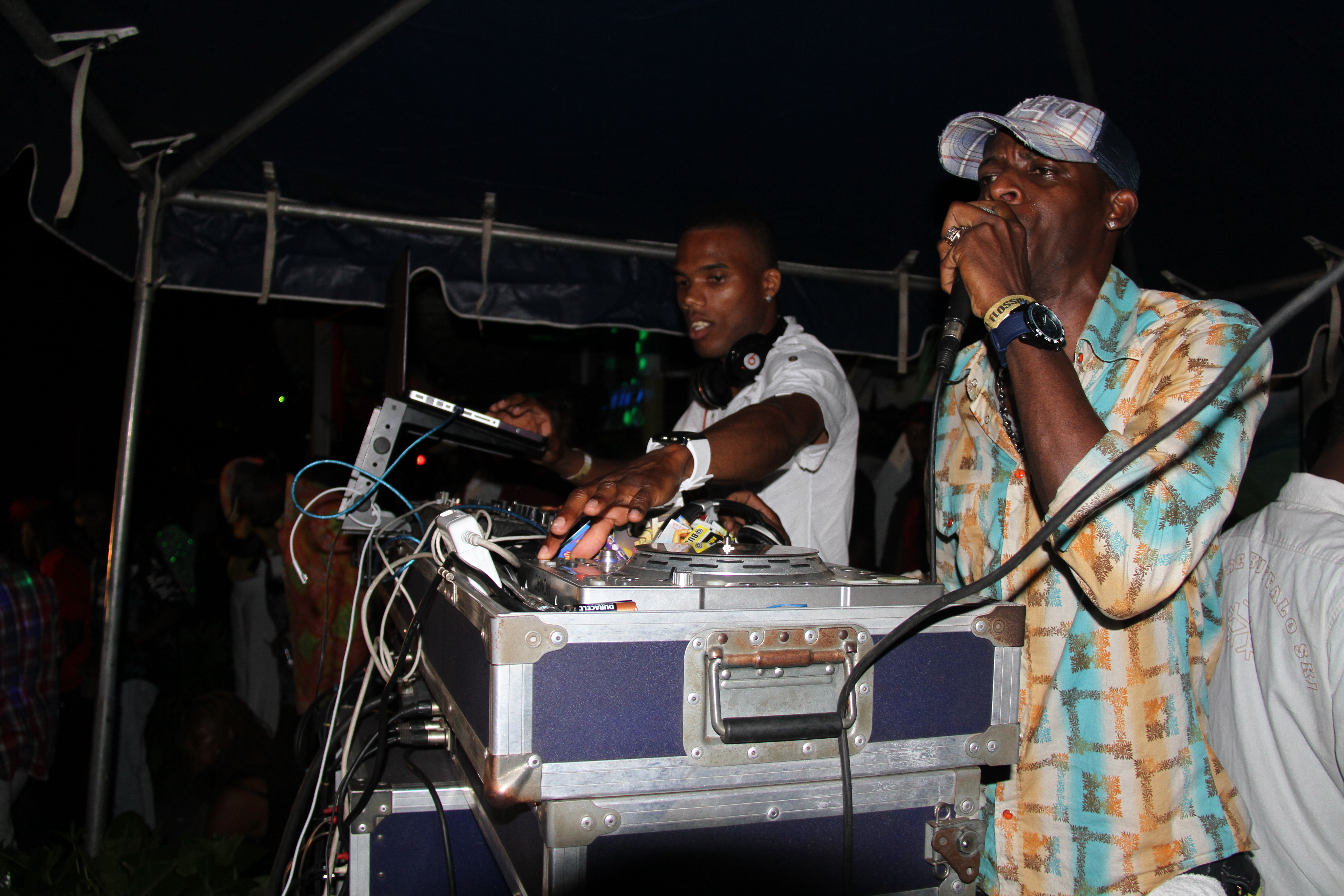 Bass Odyssey duo of selectors playing at the annual Mothers' Day dance in Tropical Hut, st. Mary, Jamaica